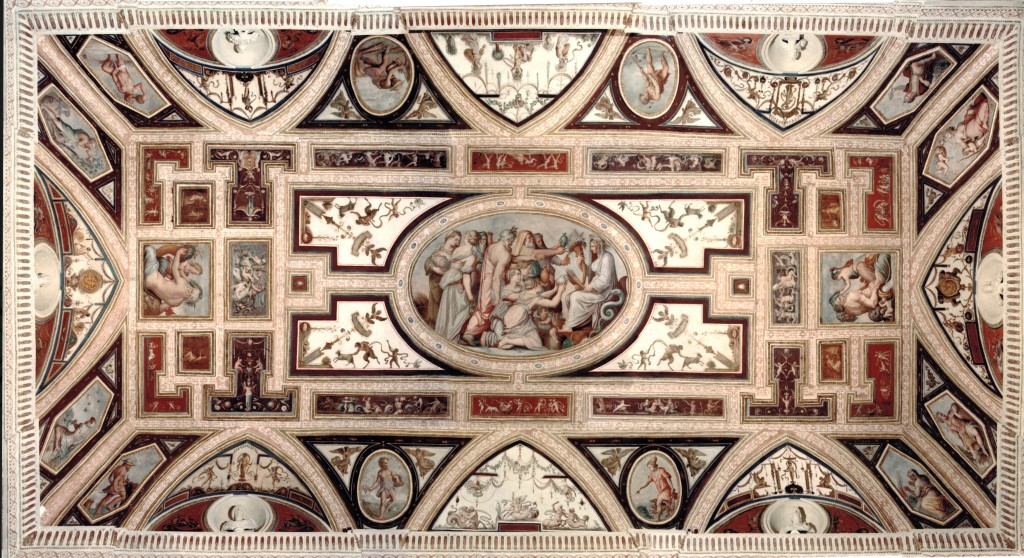 Sala Altoviti, Palazzo Venezia